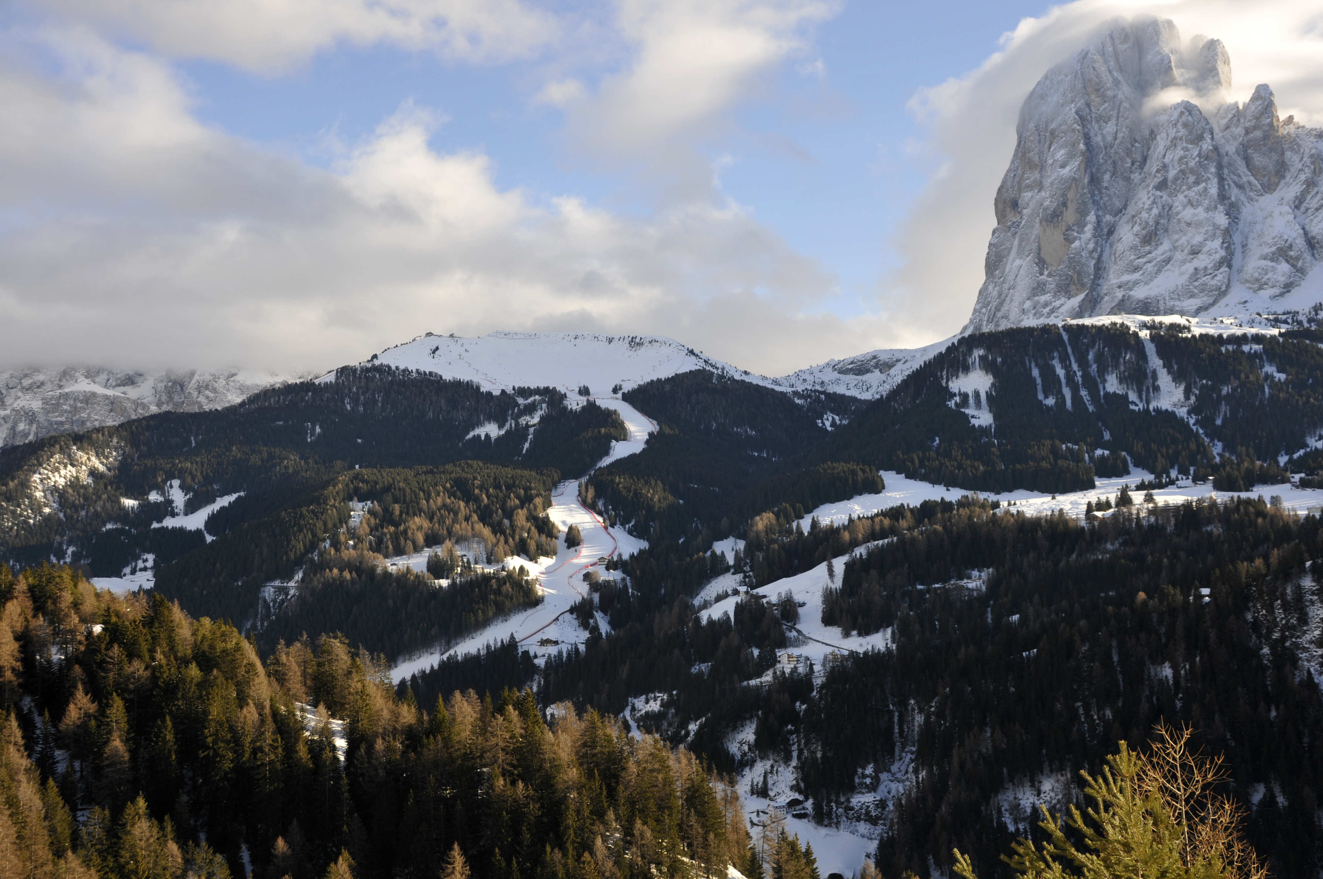 The Saslong downhill race track and the Langkofel (lad. Saslong) on the right in the Dolomites South Tyrol